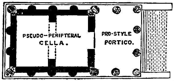 Plan of the so-called Temple of Fortuna Virilis of the ancient city of Rome. The black shows tufa; the shading travertine.